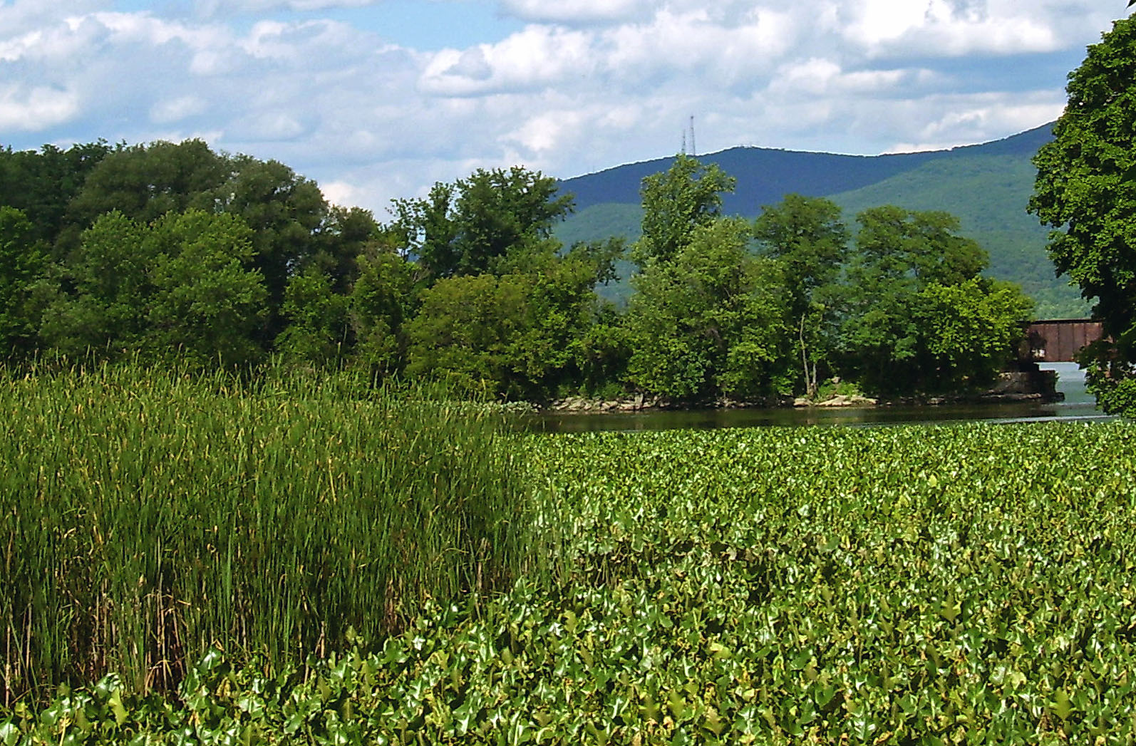 Salt marshes at mouth of Moodna Creek, photographed from Shore Road near Cornwall town/village line